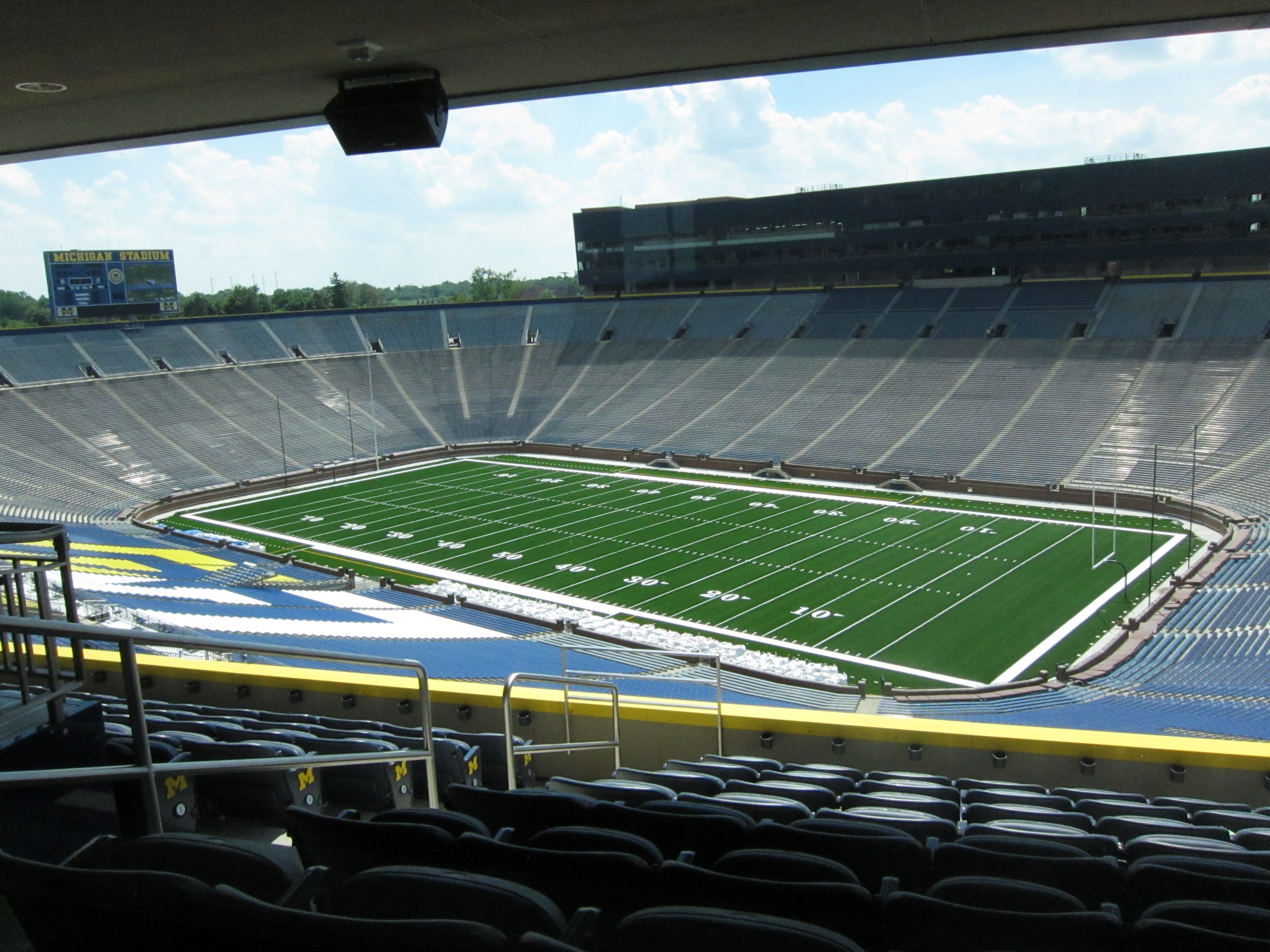 The renovated Michigan Stadium, looking west toward new premium seating and press facilities. Seen at a public open house, July 14, 2010.